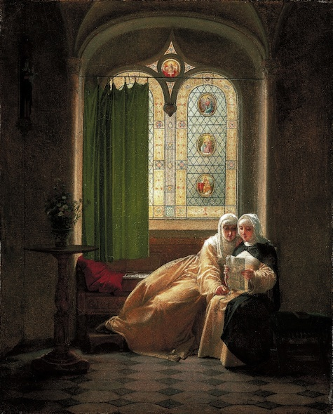 first half of 19th century